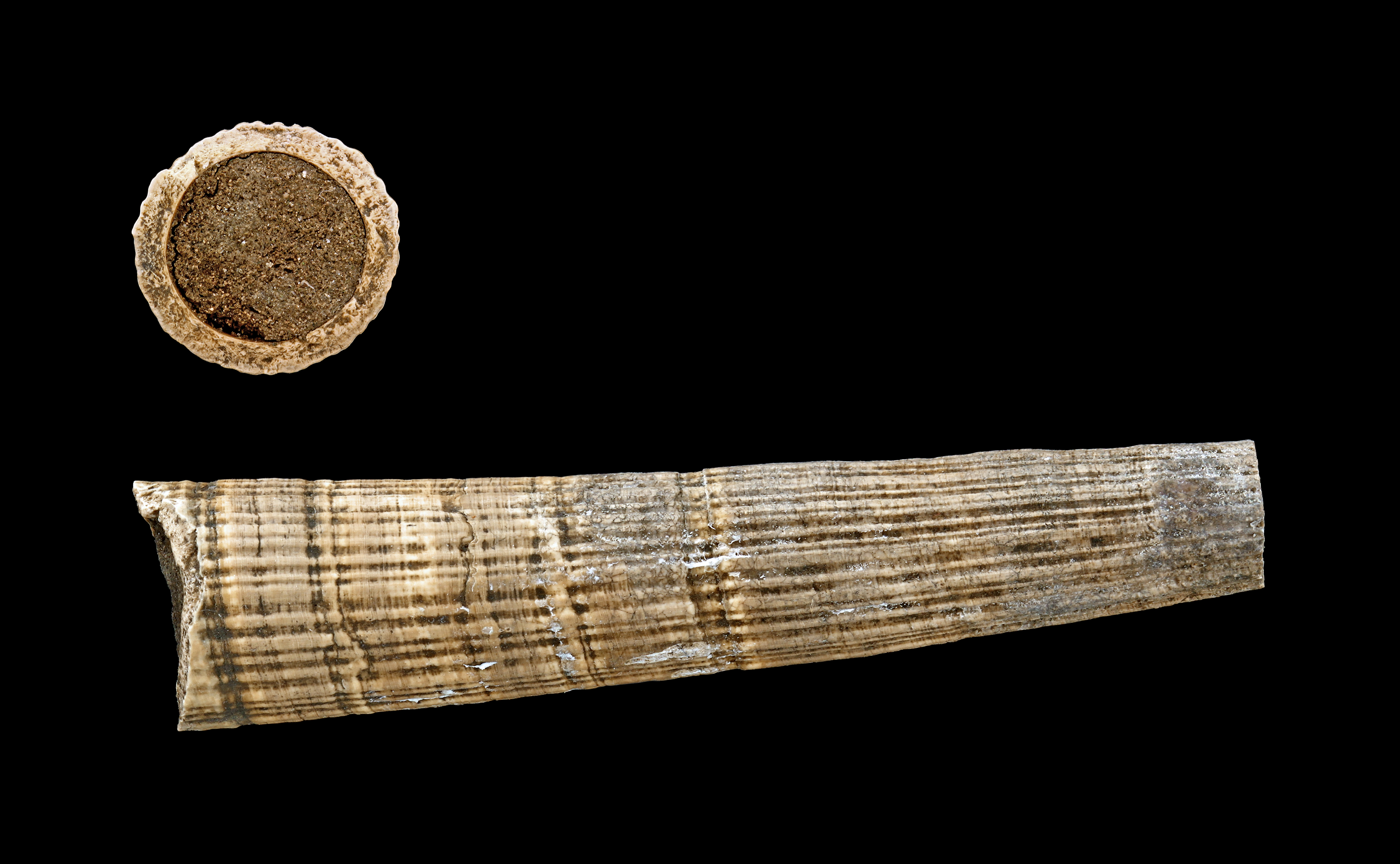 Length 3.8 cm; Miocene, Middle Serravallian, Langenfeldian; Gravel, pit Groß Pampau near Schwarzenbeck / Hamburg, Germany; Shell of own collection, therefore not geocoded.Lateral and frontal view.